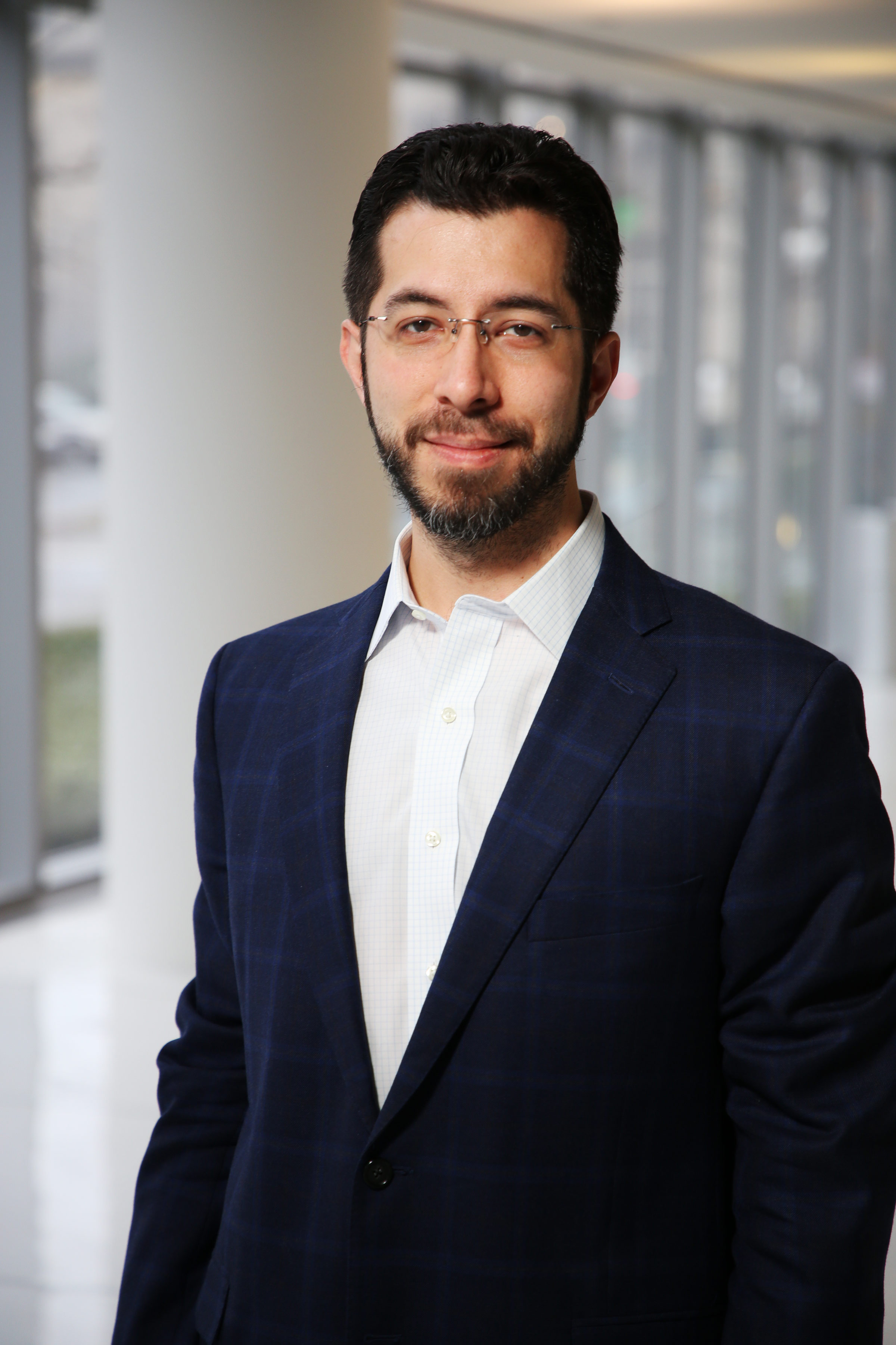 American neuroscientist Edward (Ed) Boyden at the MIT Media Lab in June 2018.